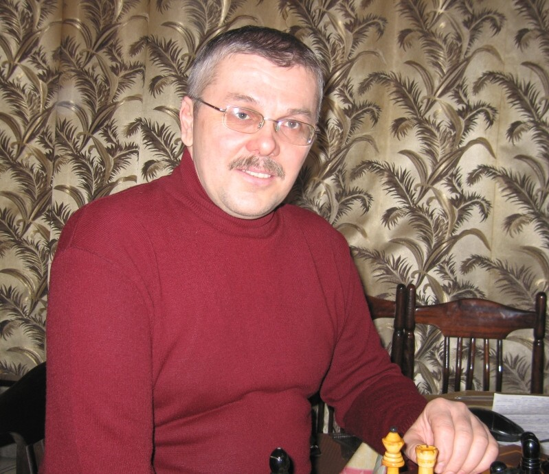 GM Valery Shanshin, Tula weekly meeting, 4 january 2010.